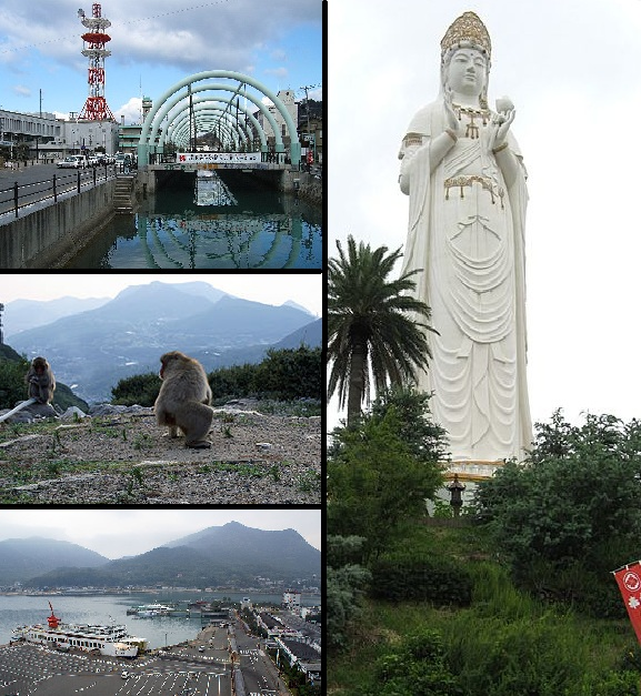 Tonosho montage